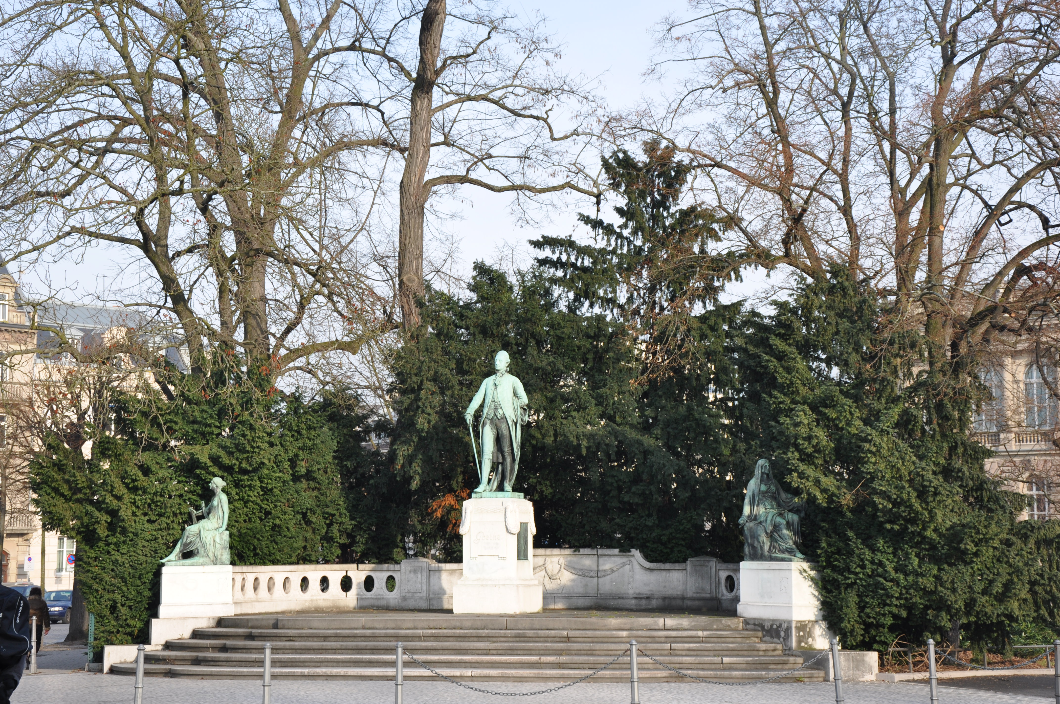 Johann Wolfgang von Goethe (1749 - 1832), Strasbourg, Alsace, France